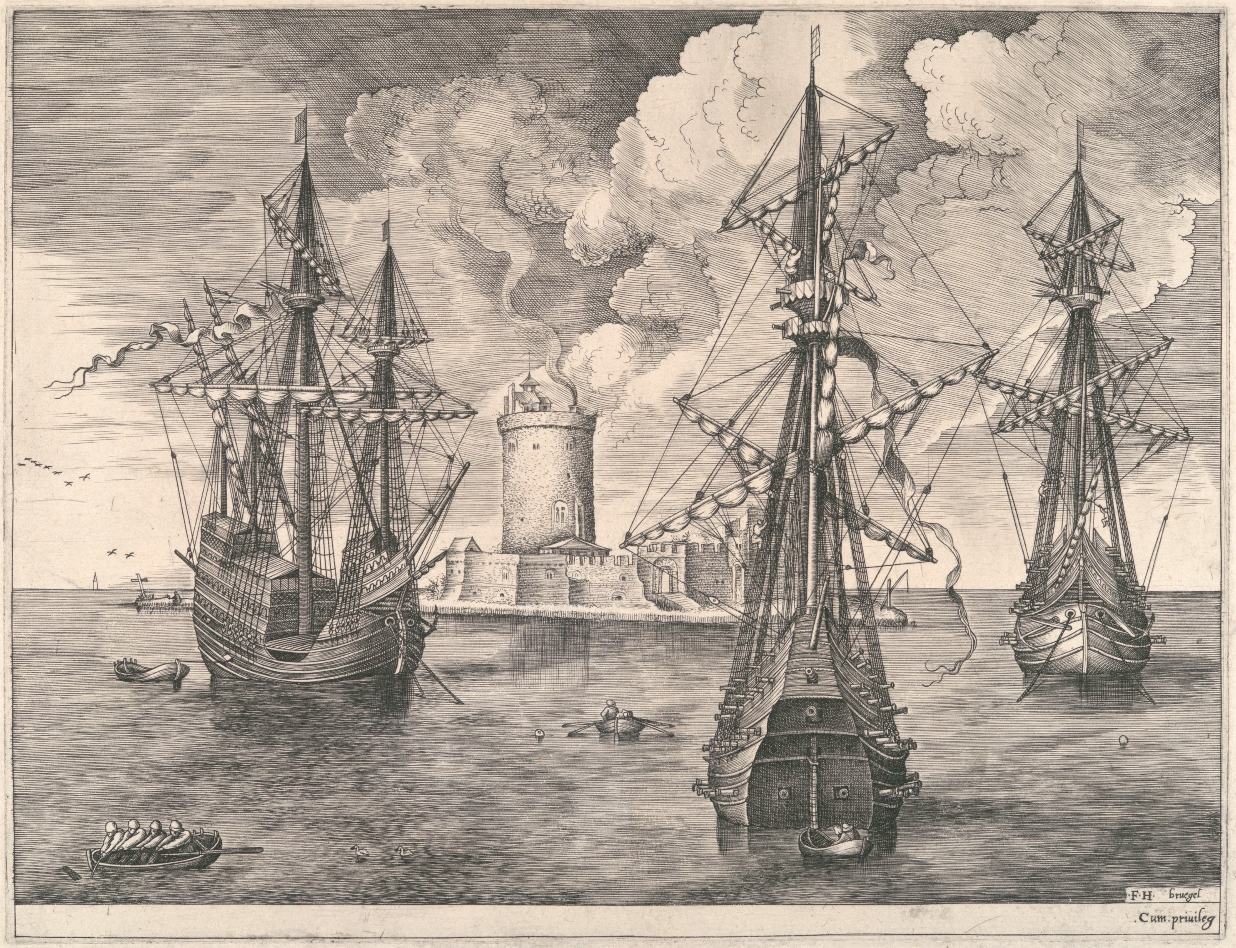 Print; Prints